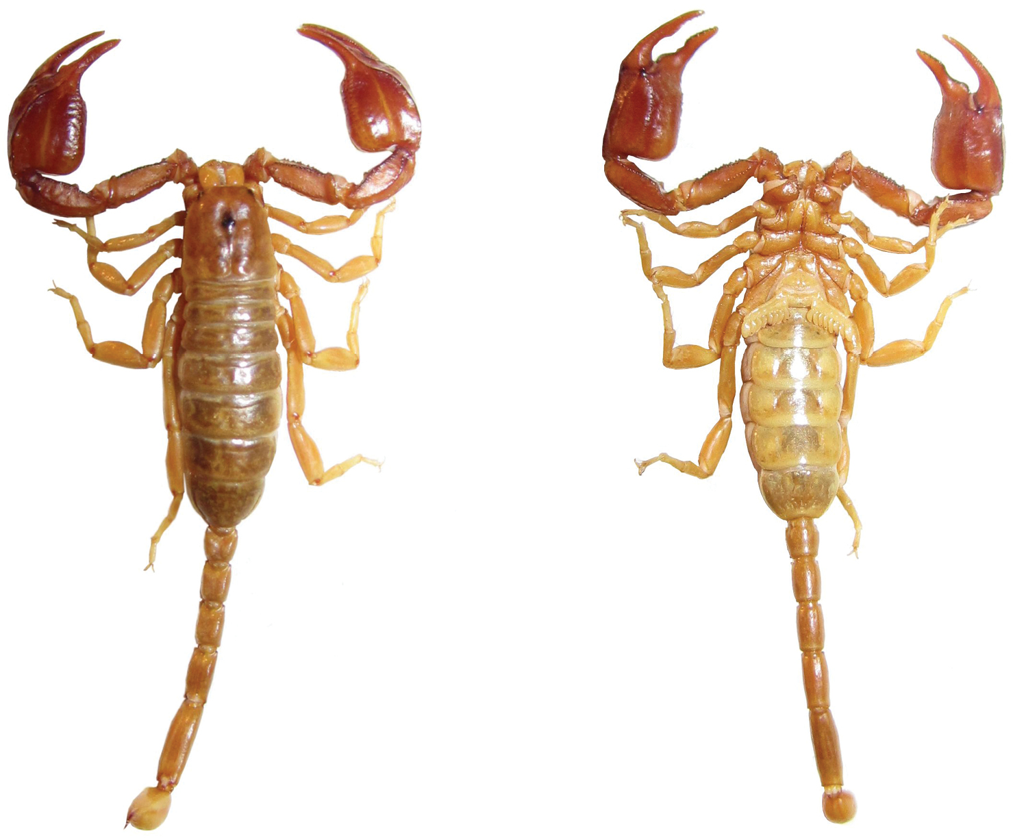 Dorsal and ventral views of Euscorpius avcii male.